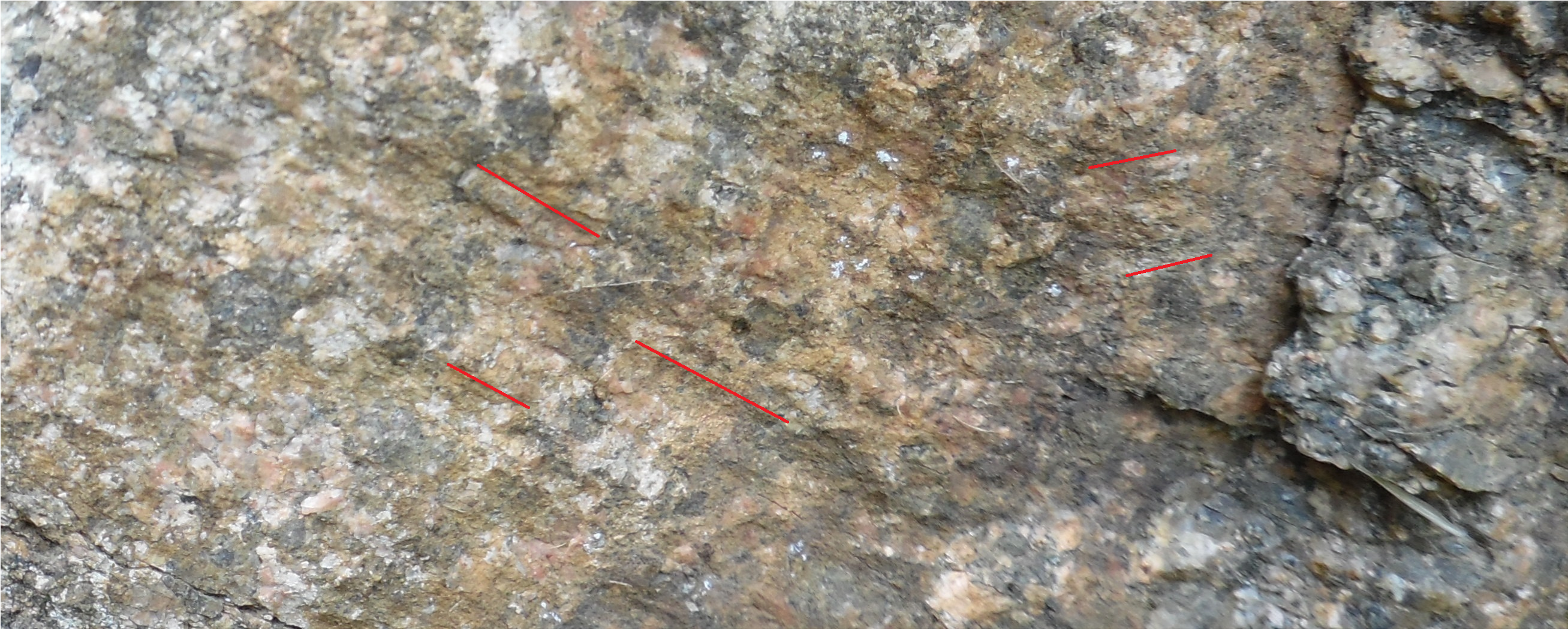 Strike-slip fault with slickensides in coarse-grained facies of the Piégut-Pluviers Granodiorite near Moulin de la Côte, Saint-Martin-le-Pin